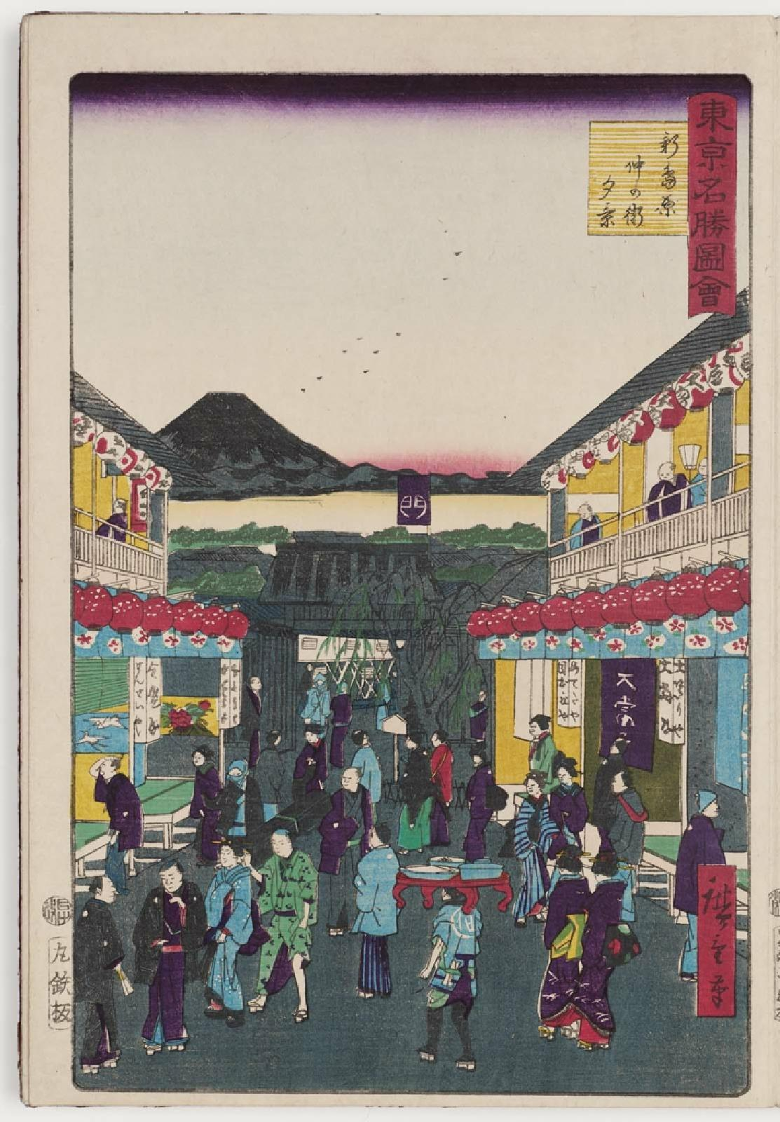 from the series Famous Places in Tokyo 3代広重『東京名所図会』「新吉原仲の街夕涼」